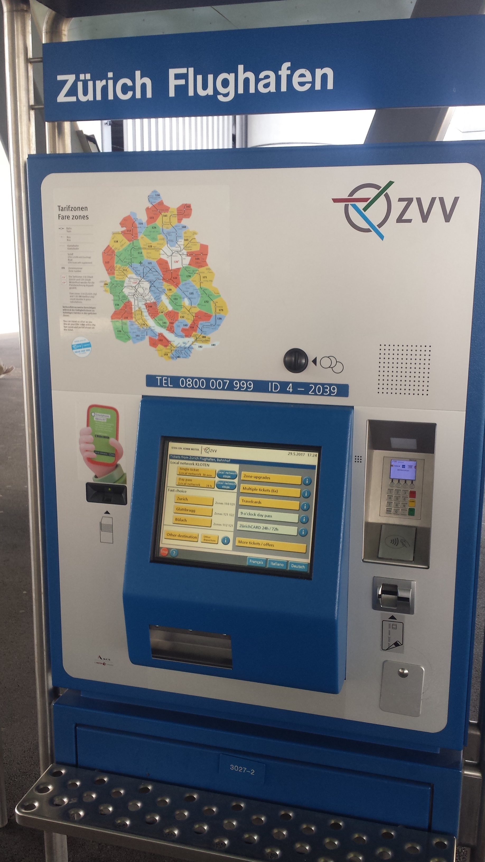 A ticket machine, selling ZVV tickets, at Zurich Airport tram stop in Switzerland. For more information, see wikipedia article Trams in Zurich.